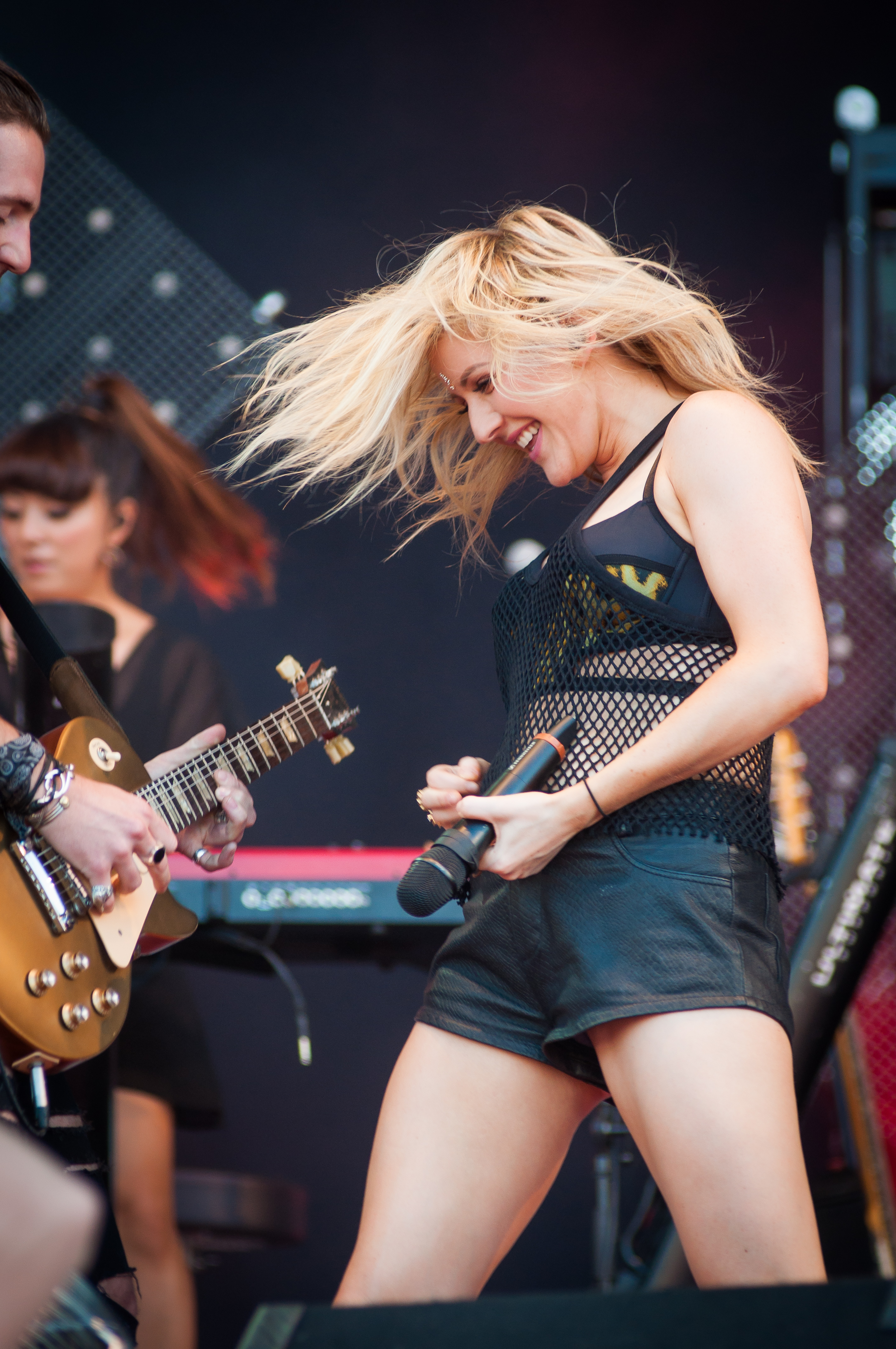 English singer Ellie Goulding performing at the 2014 Ilosaarirock festival in Joensuu, Finland.